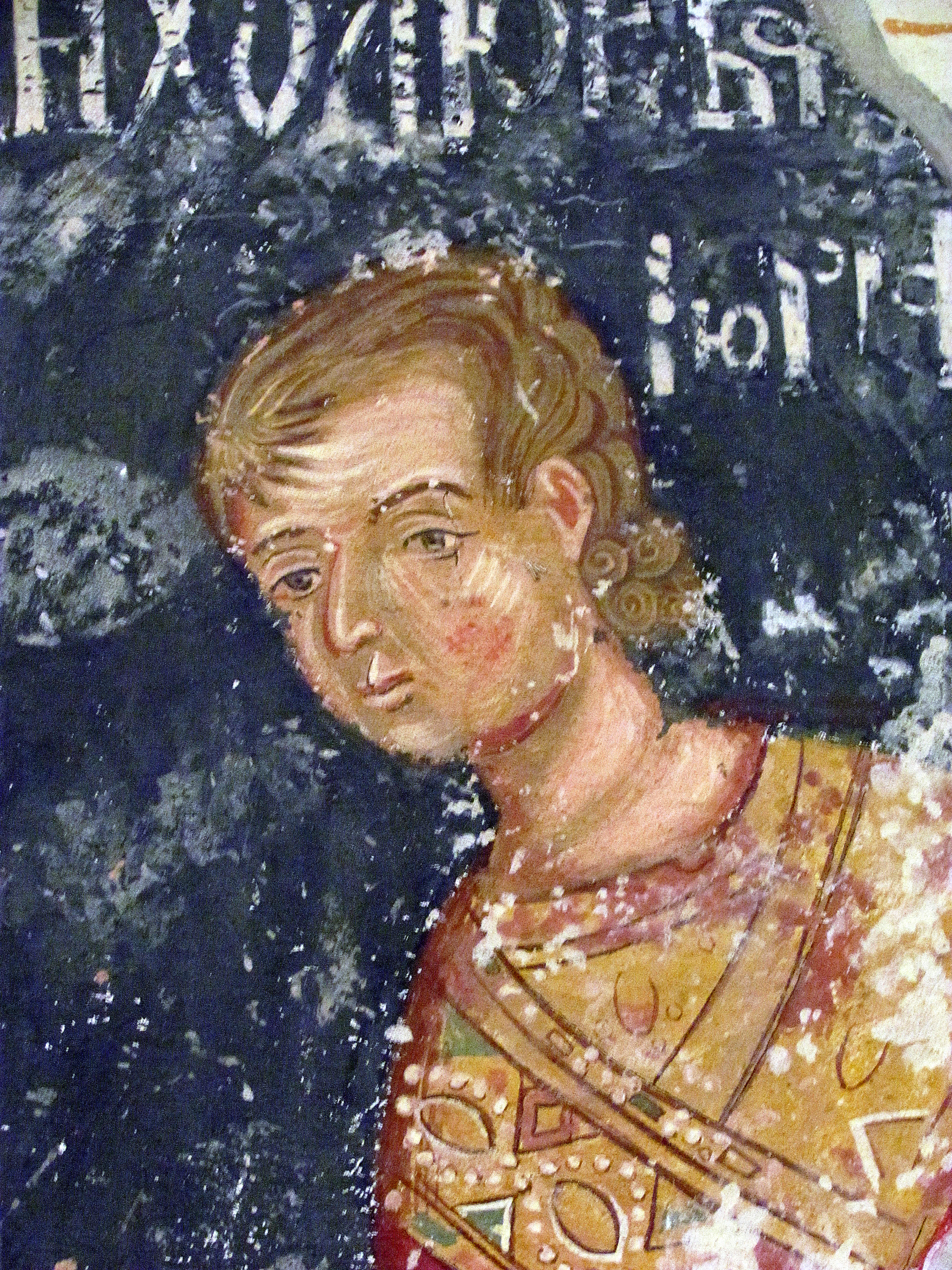 Teodor Branković, son of Đurađ Branković